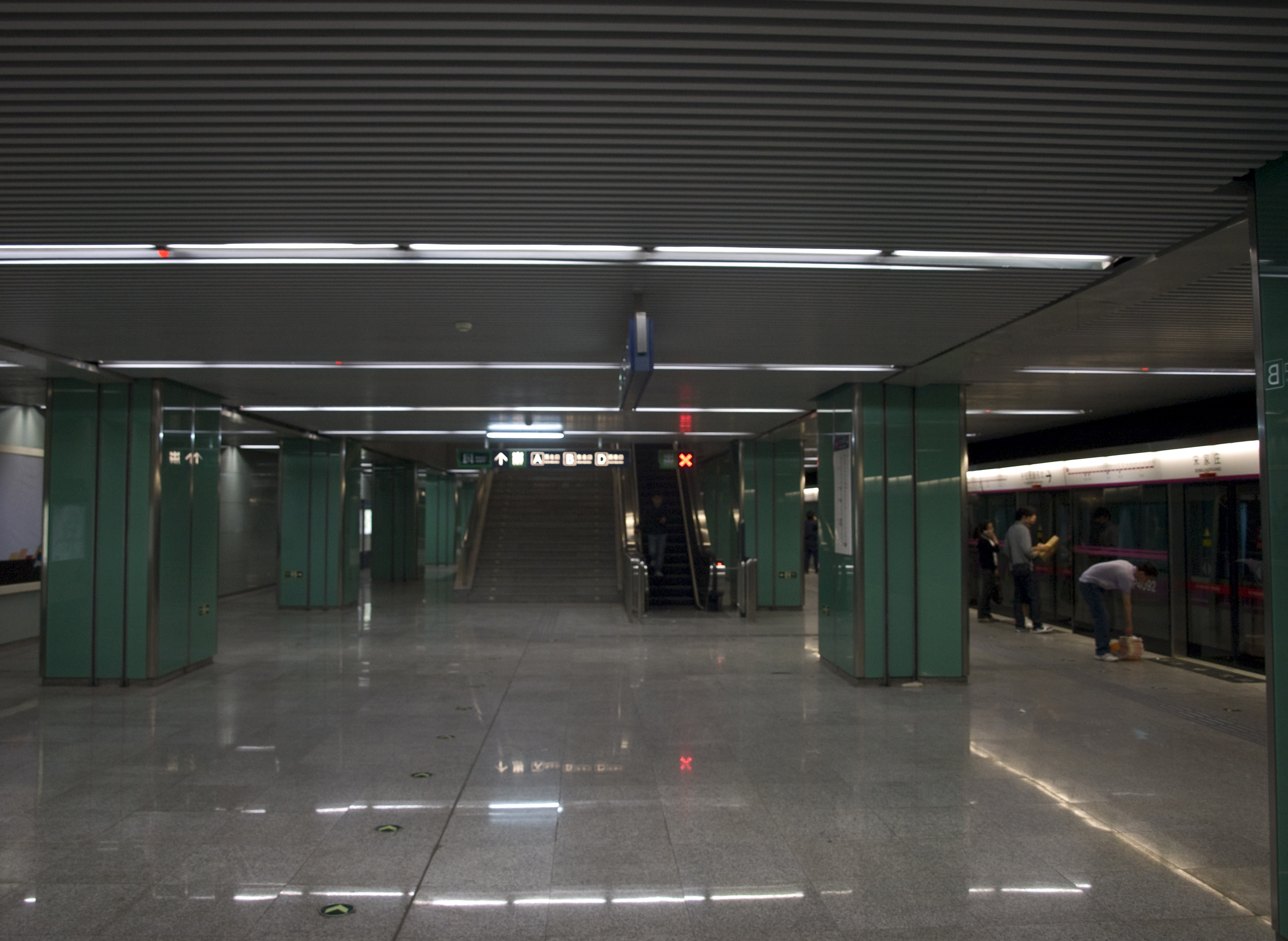 Songjiazhuang station, Beijing subway